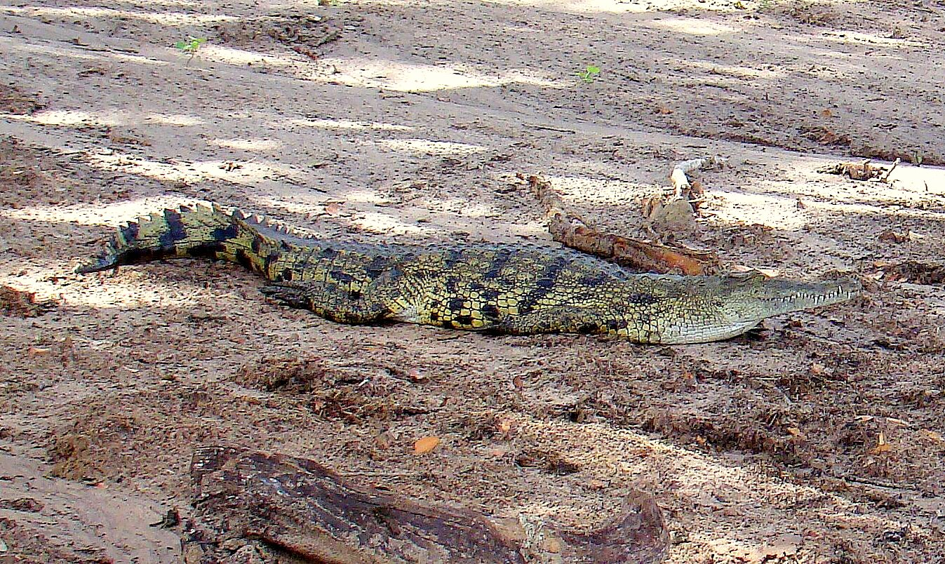 Nile crocodile in Chobe National Park - Botswana